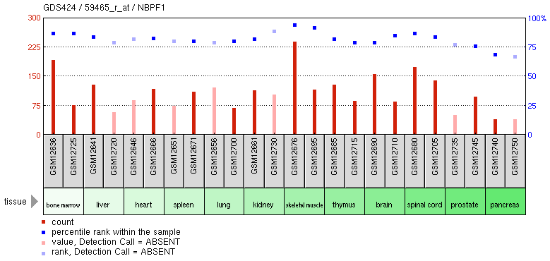 Expression for NBPF1 based on NCBI GEO Profiles, a public expression database from NCBI